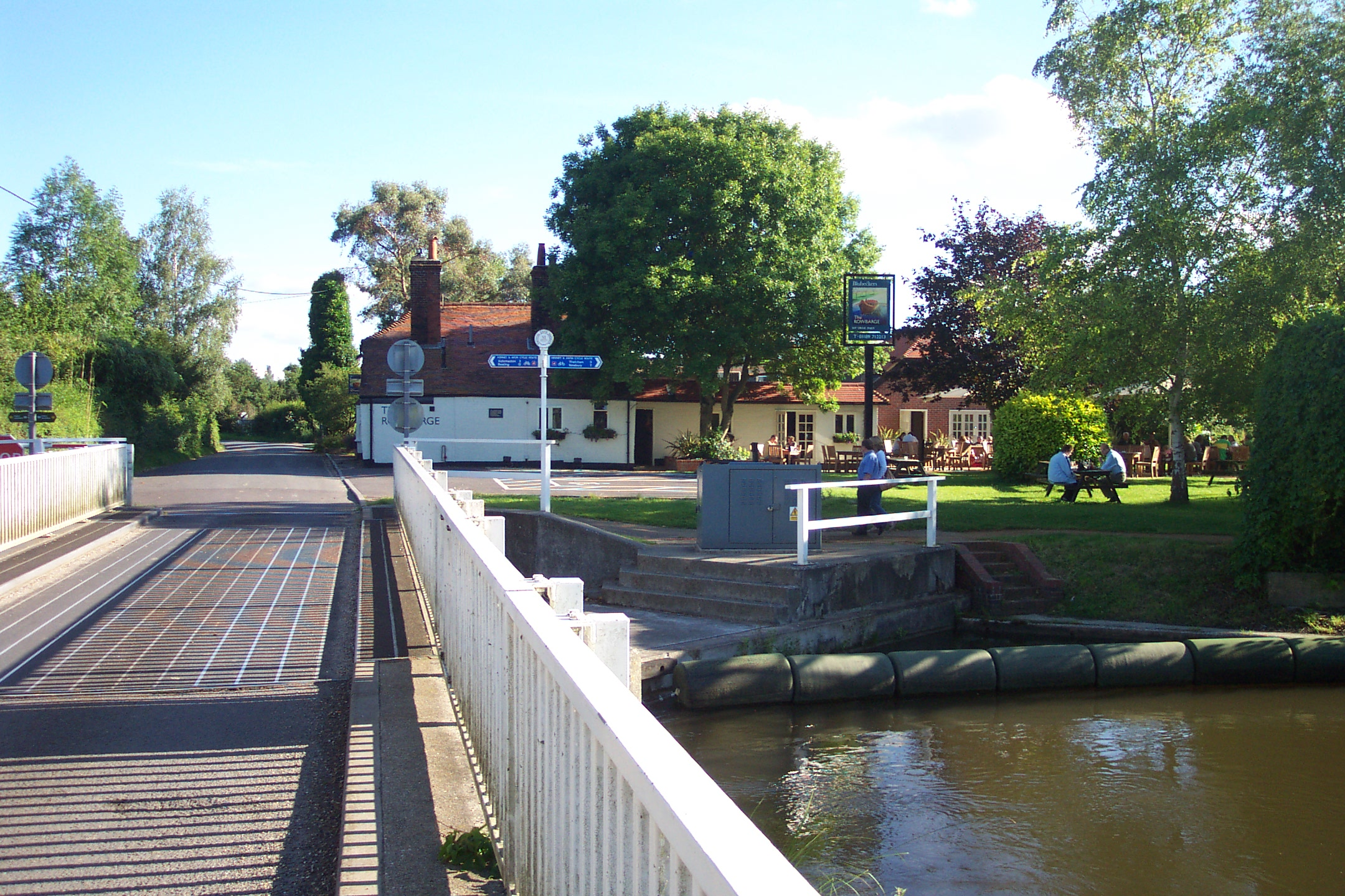 The swing bridge over the River Kennet, and Row Barge public house, at Woolhampton in the English county of Berkshire. For more information see the Wikipedia article Woolhampton.